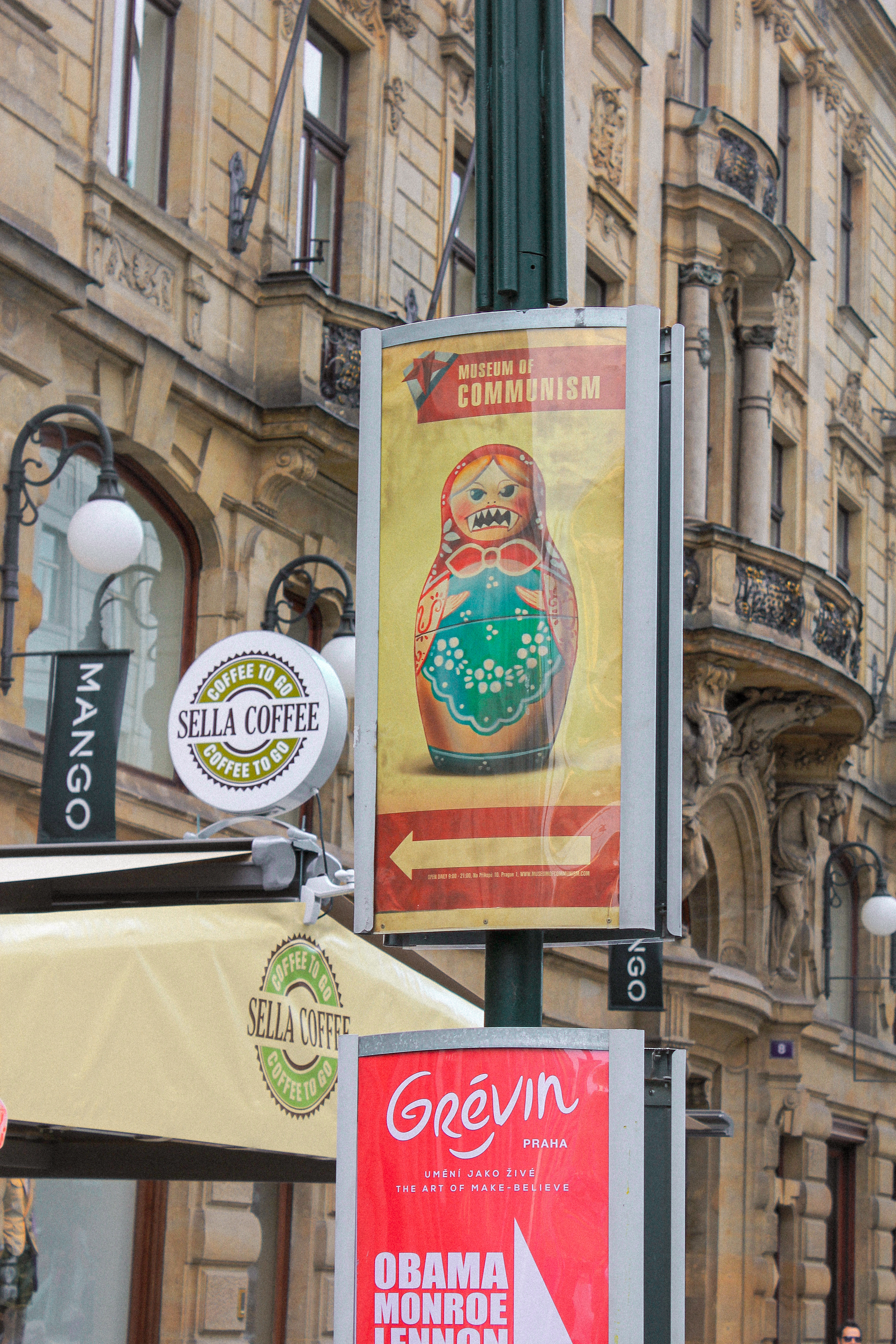 Museum of communism sign (Na příkopě 852/10)